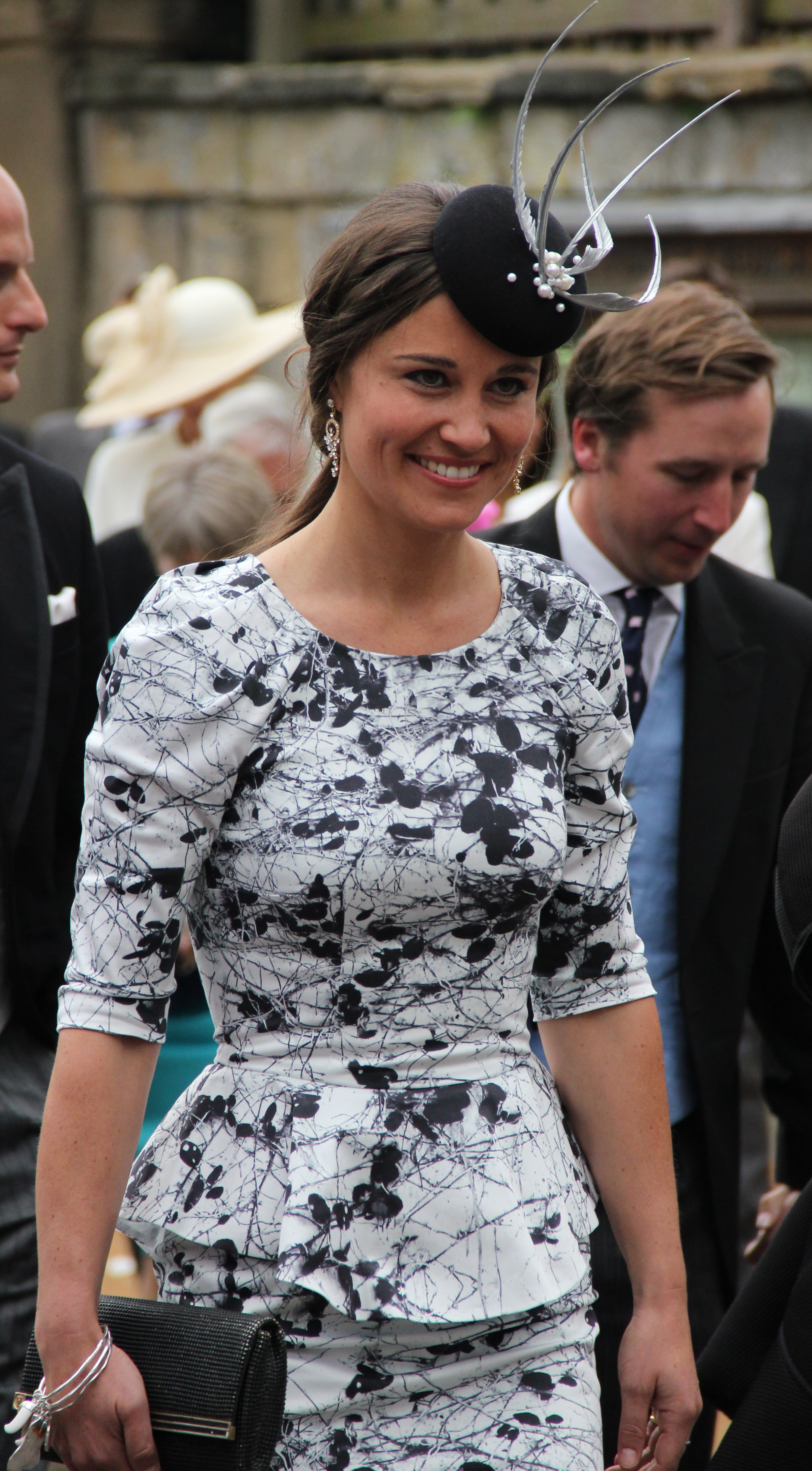 Pippa Middleton at the wedding of Lady Melissa Percy